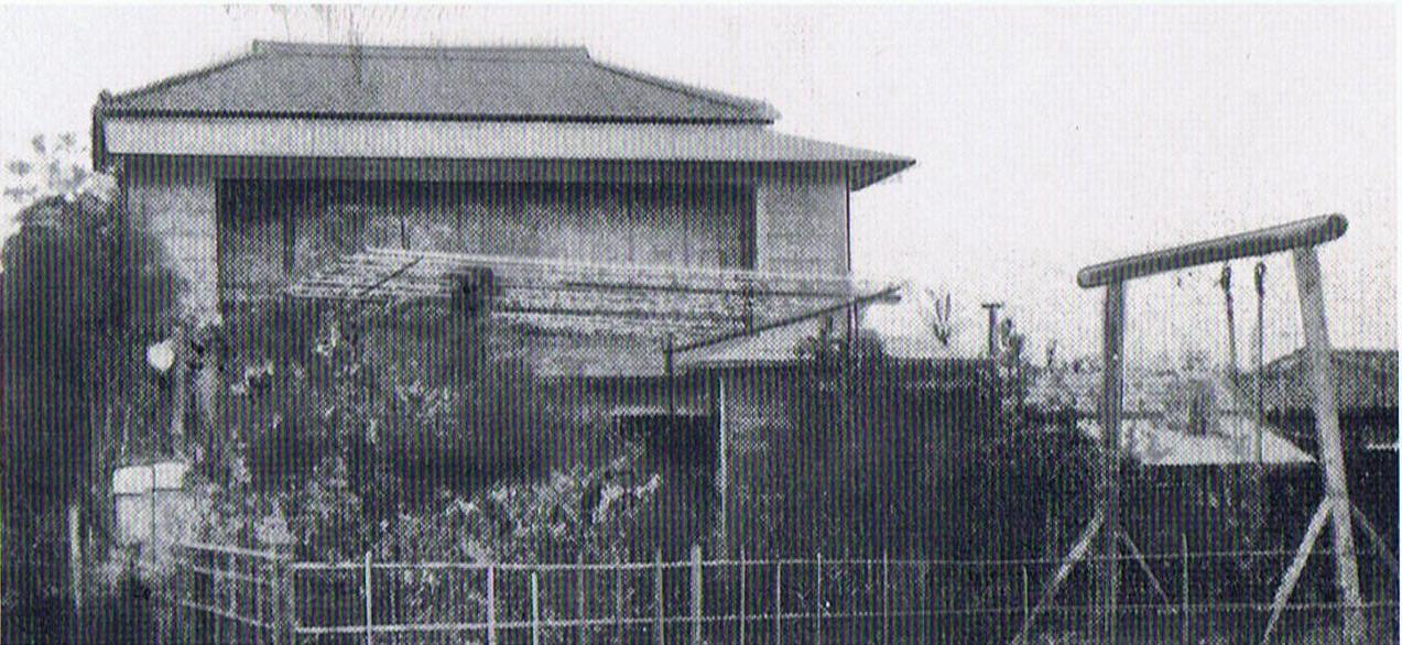 Senzoku Gakuen